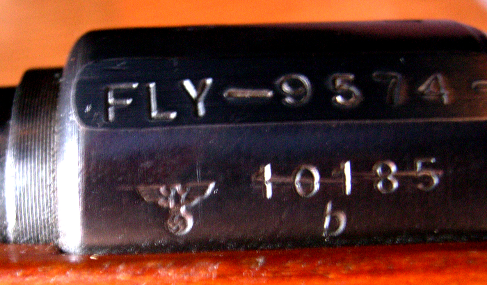 Detail on a Mauser Karabiner 98k used by the norwegian Air Force after WWII. The german eagle with the Nazi swastika is still visible